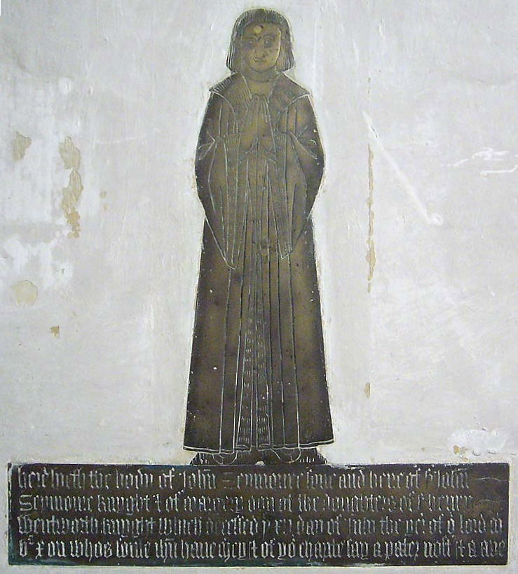 Monumental brass of John Seymour (died 15 July 1510), eldest son of Sir John Seymour (d.1536) of Wulfhall, Great Bedwyn, Wiltshire, and eldest brother of Queen Jane Seymour. He died young and pre-deceased his father. Inscription: "Here lyeth the body of John Seymour sonne and here of Sr John Seymour, Knight, & of Margery oon of the daughters of Sr Henry Wentworth, Knight, which decessed ye xv day of July the yer of or Lord MVCX on whos soule Jhu have mcy & of yor charitie say a Pater Nost & a Ave" (Frederic Madden, Bulkeley Bandinel, John Gough Nichols, (Eds.), Collectanea Topographica Et Genealogica, Vol.5, pp.21-24[1]; text:[2])